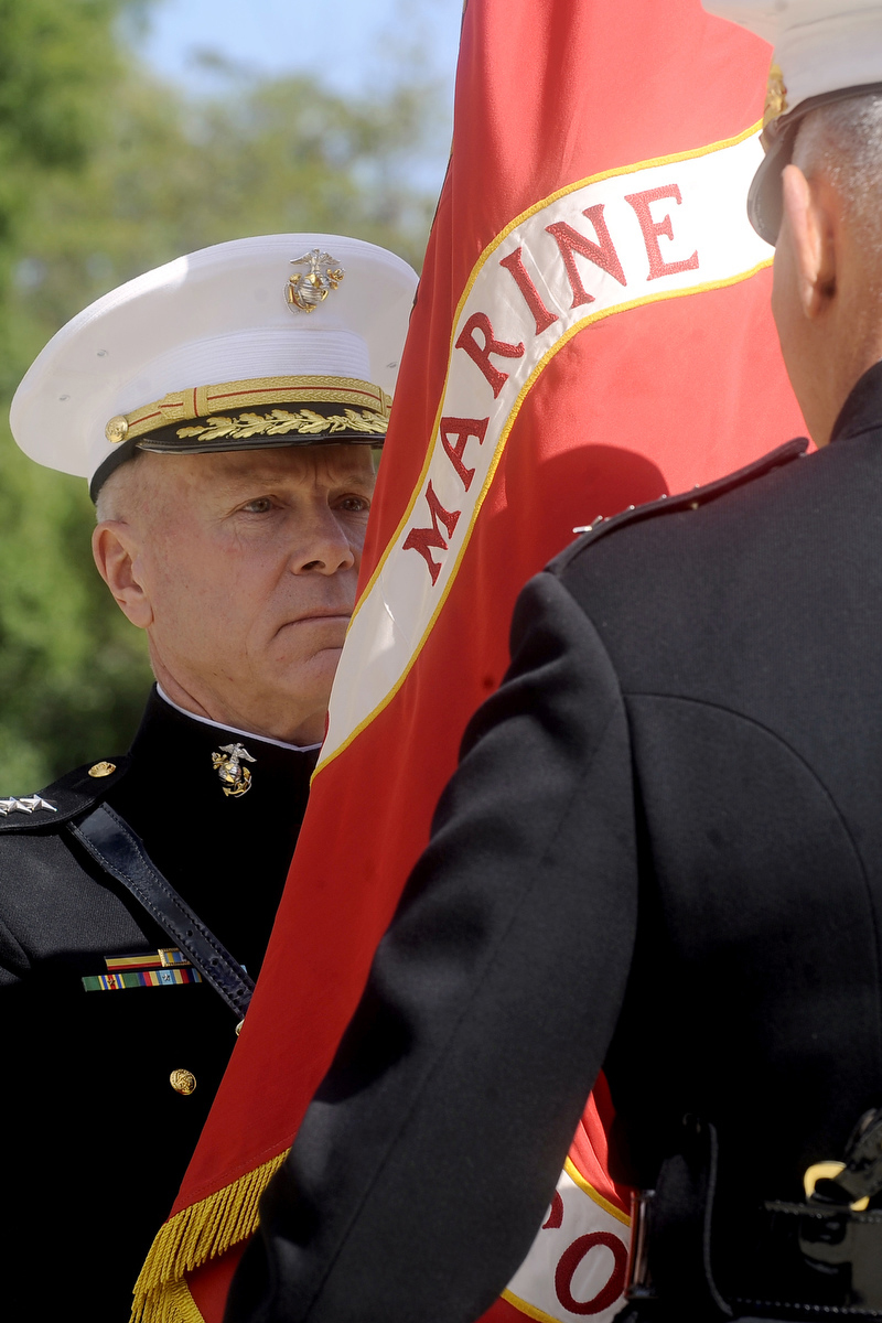 The 35th Commandant of the Marine Corps Gen. James F. Amos accepts command from Gen. James T. Conway during a Passage of Command ceremony presided over by Secretary of Defense Robert M. Gates at the Marine Barracks, Washington, D.C., on Oct. 22, 2010.